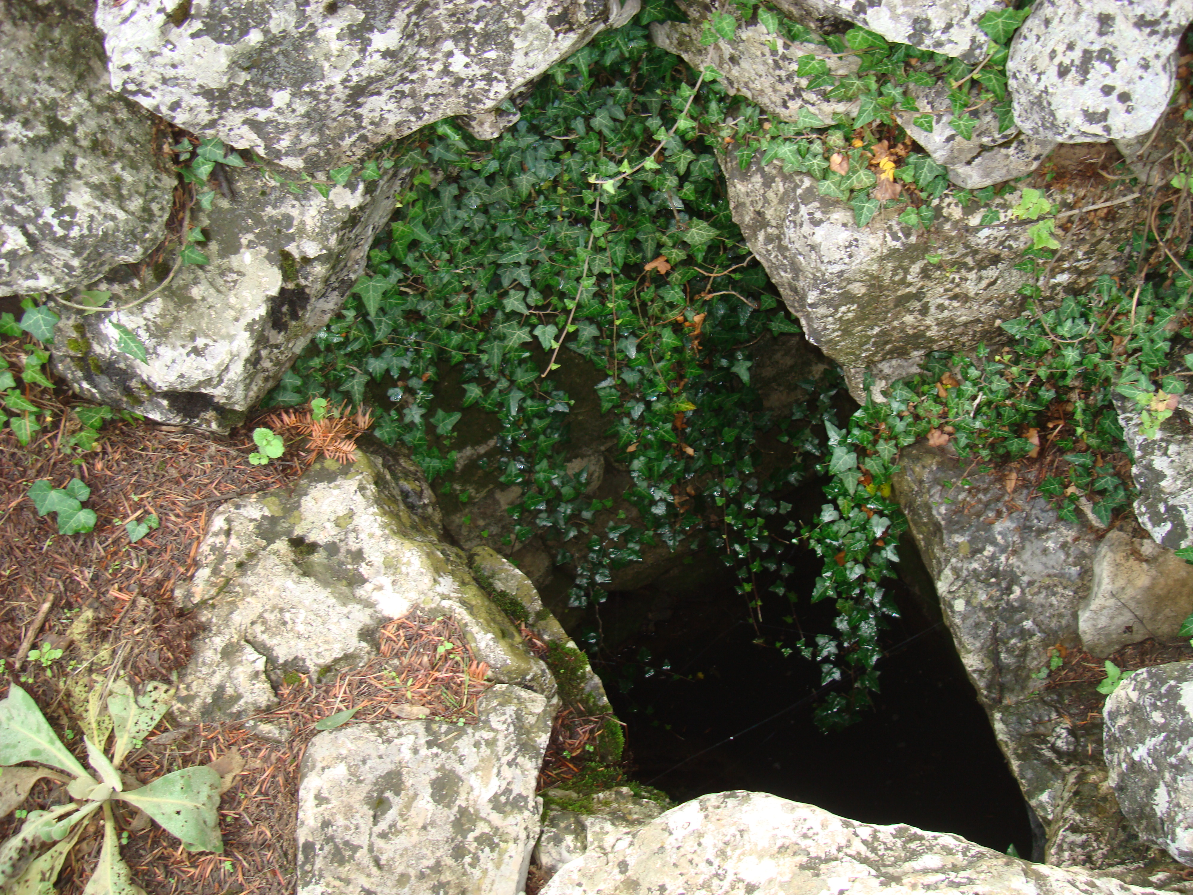 Hippocrene source on Mt. Helikon (Mt. Zagarás, N38 19.150 E23 01.958 )